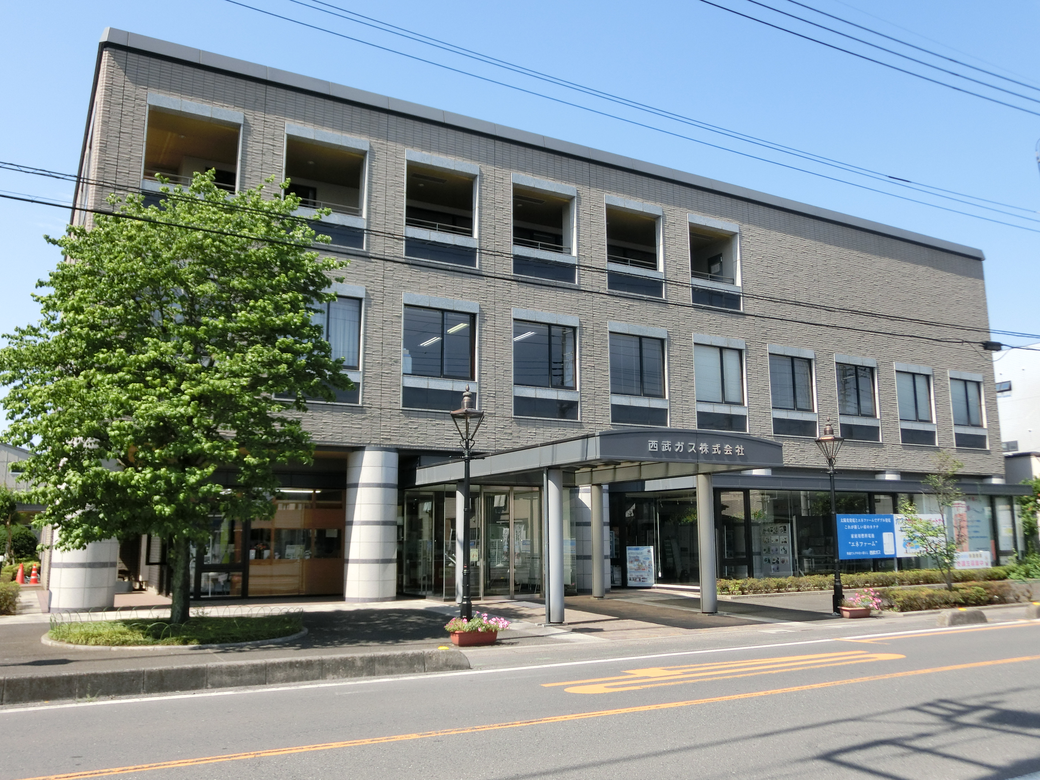 Seibu Gas Head Office